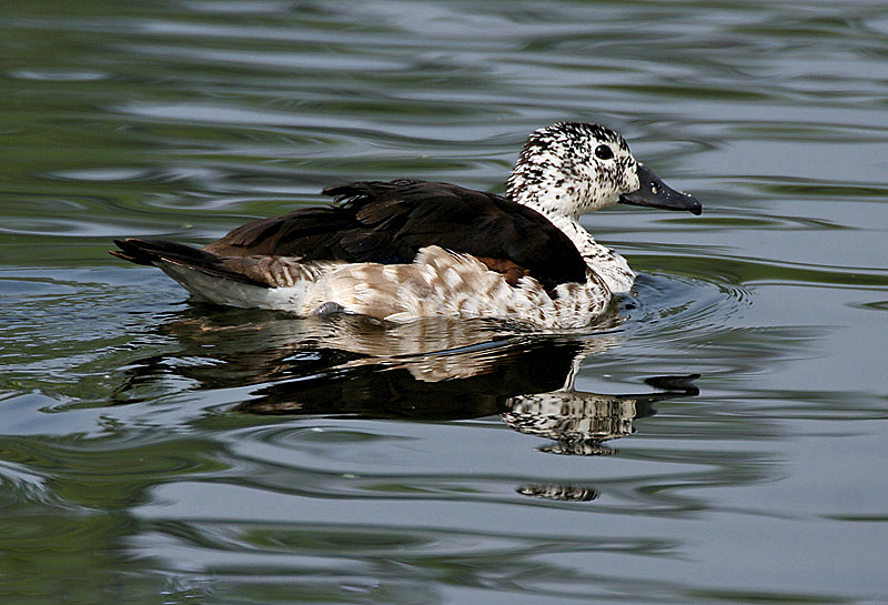 Knob-billed Duck Sarkidiornis melanotos in Kolkata, West Bengal, India.